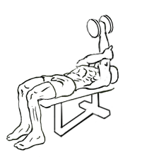 an exercise of triceps